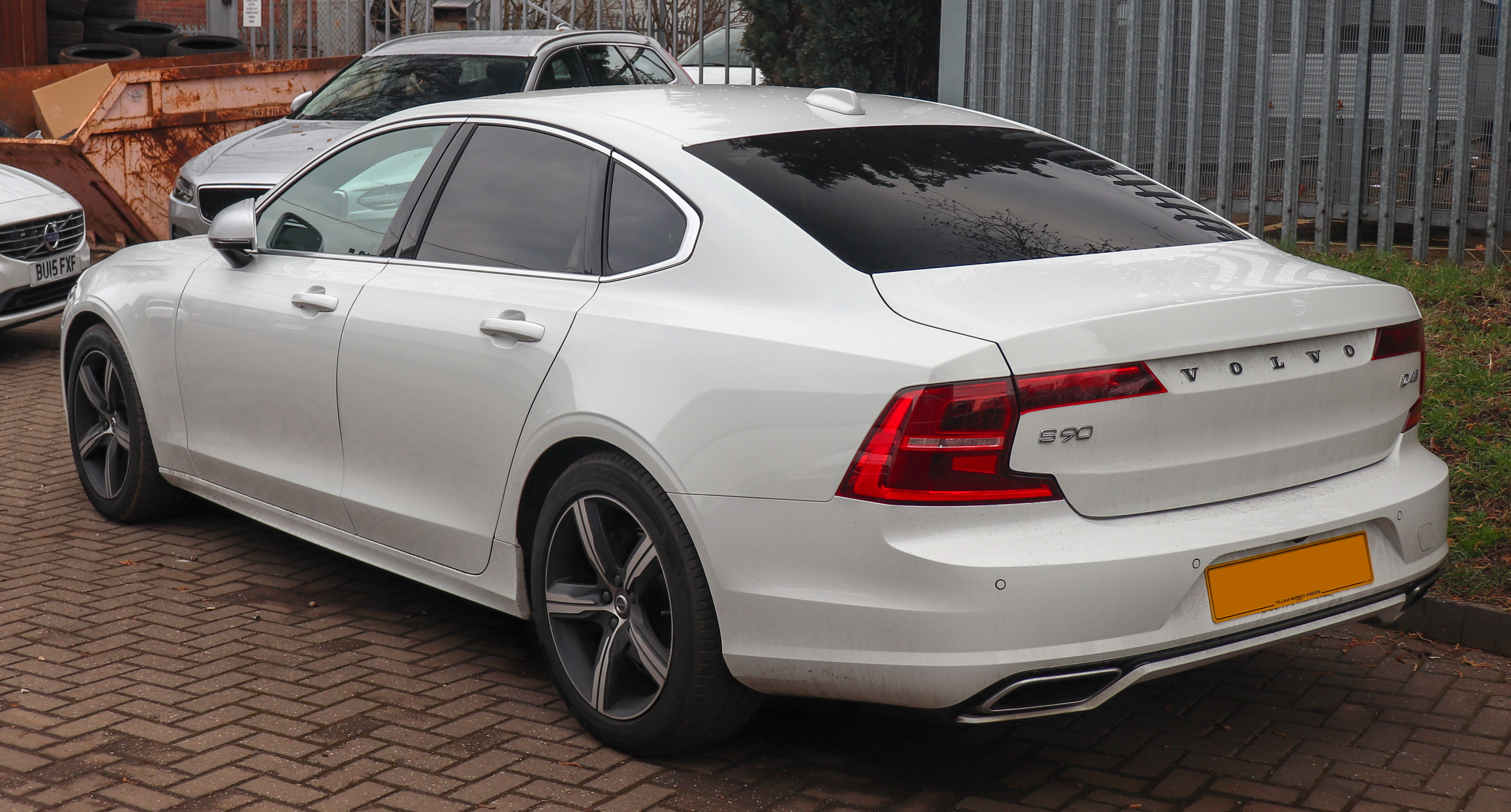 2018 Volvo S90 R-Design D4 Automatic 2.0 Rear Taken in Leamington Spa